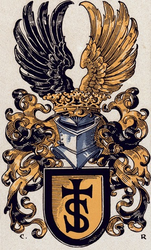 Coat of arms of the Burckhardt patrician family of Basel